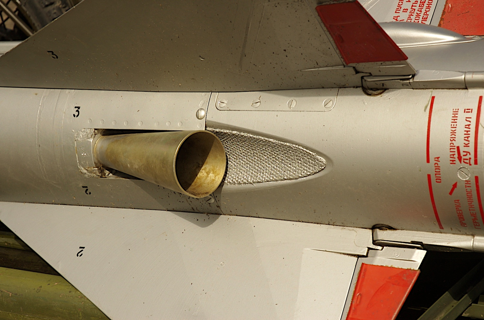 K-5M (AA-1 Alkali) Soviet Air-to-Air Missile